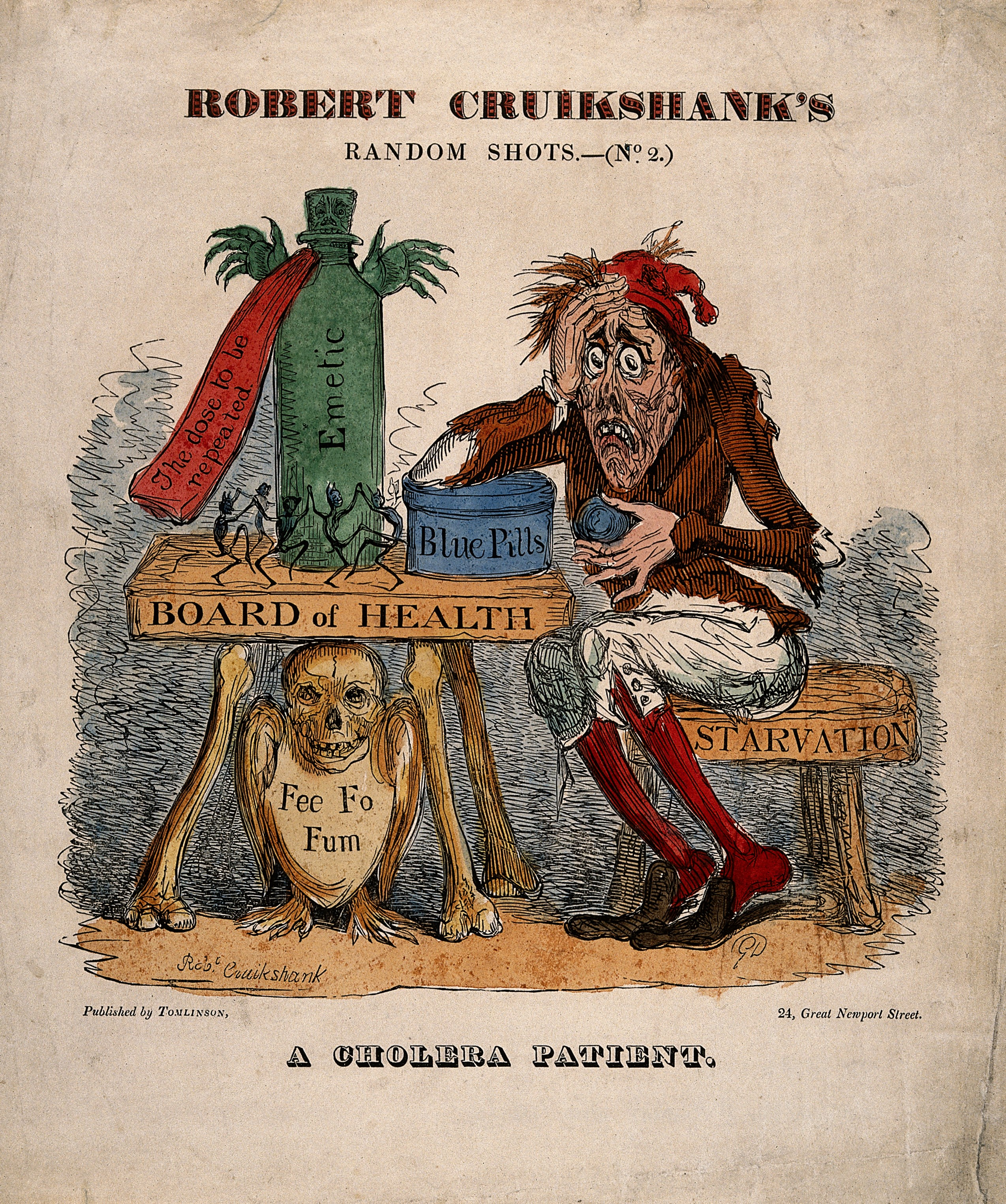 A cholera patient experimenting with remedies. Coloured etching by R.I. Cruikshank, [1832?]. Iconographic Collections Keywords: Cholera; Robert Cruikshank; Therapeutics; Caricatures; etchings